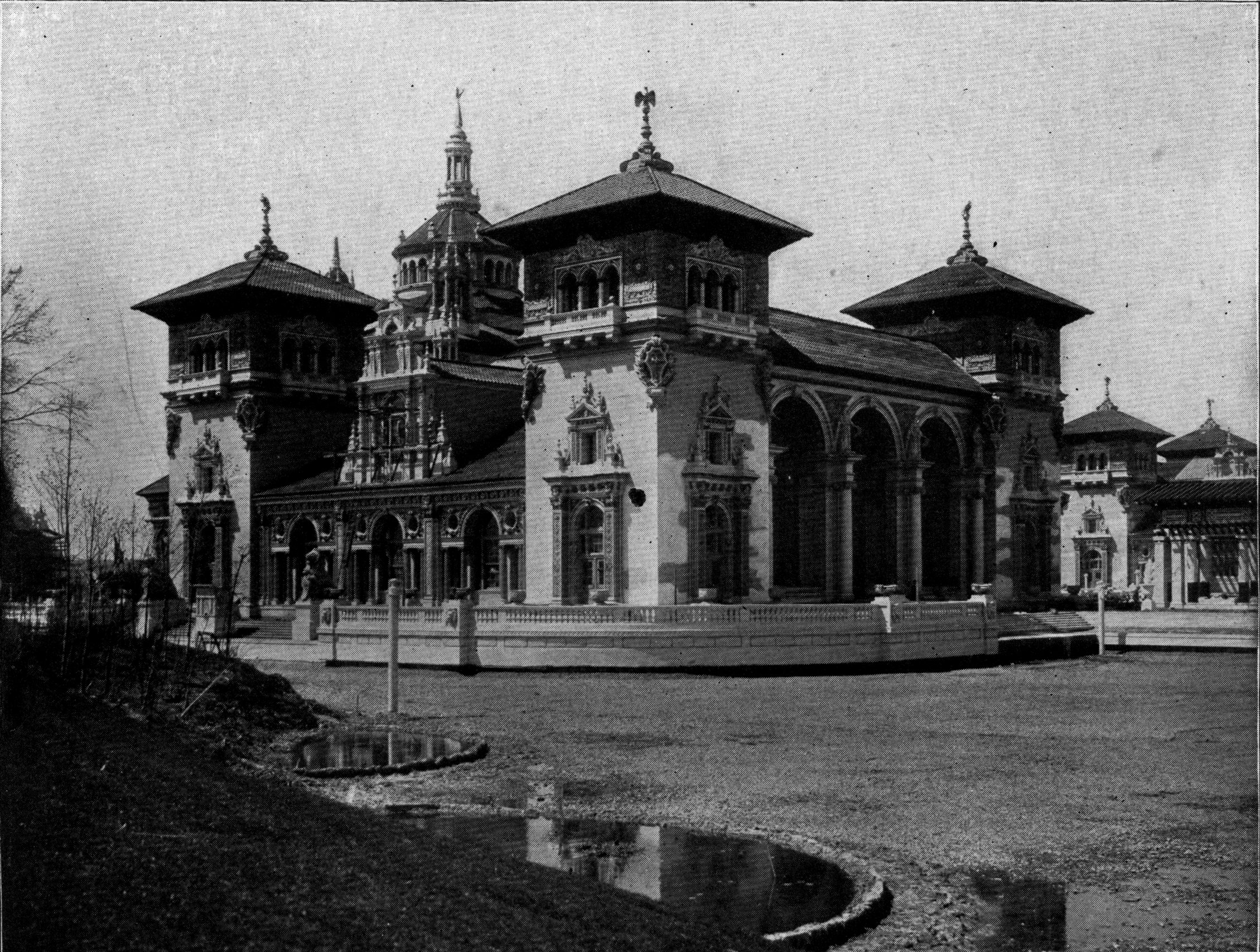 Original caption: "Mines Building from Mirror Lake - The Mines Building is 150 feet square, and opposite it, across the Esplanade, is the Graphic Arts Building, corresponding to it in size and architectural style. These two buildings are connected by conservatories with the Horticulture Building. R. S. Peabody is the architect of the three buildings of the group."